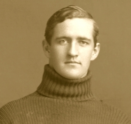 Photograph of Paul J. Jones